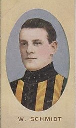 Cigarette card of Billy Schmidt from the Sniders & Abrahams 1910 series